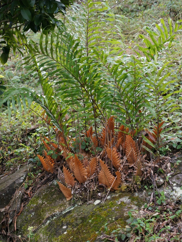 Drynaria rigidula This species is very adaptable, with a number of growth habits. It grows on trees in rainforest and tall open forest, on rocks in more open areas. Location: Cania Gorge National park, Australia